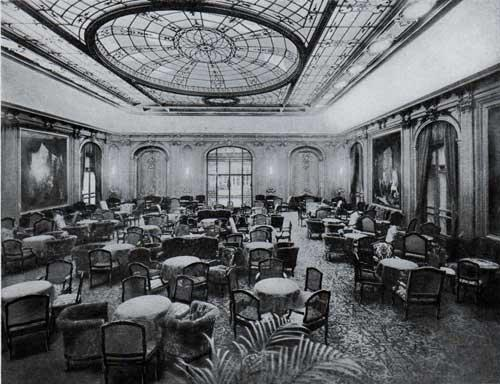 The First Class Social Hall of the SS Leviathan